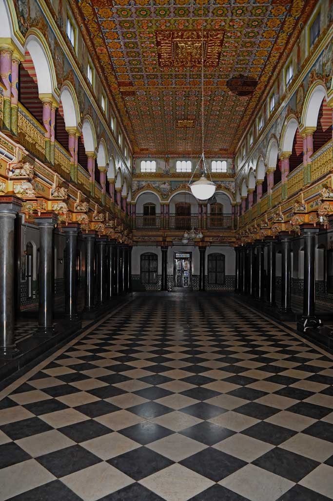 The main hall of the Athangudi Palace, Chettinad. The enterprising Nattukottai Chettiars or Nagarathars travelled wide over the British Empire, towards the end of the 19th and early 20th Century. Chettiars were traders and bankers par excellence. It is believed that the system of double entry accounting, now practiced the world over was their contribution. Before the Bank of Ceylon was established the entire banking industry in Sri Lanka was managed by them. In a bid to make a strong statement of their social status and financial worth, the Narathars invested their earnings back in Chettinad, often in the form of opulent homes, befitting a Raja, a title which was actually conferred on some of them by the British. Their houses consisted of a series of halls and nalukettu and started with an elevated and covered verandah or thinai where men met visitors and business associates. The ornate door with fine carvings at the end of the thinai led to a huge decorated hall, often with decorated roof two floors high. This was the place where important guests received. A long hall, often running the length of the building was used as banquet halls during family celebrations like marriages. A door in line with the entry opens into a quadrangle, mainly used as the living quarters of the sons and their family. A third door in line with the two leads to a courtyard, which was basically used by the women. Often, a fourth quadrangle, which housed the kitchen, grinding wheel and the rice milling tools (Oral and Ulakkai) was also added just at the end. All doors are precisely lined so that from the main gate one can look straight through the doors into the backyard, which was often more than 200 yards away.